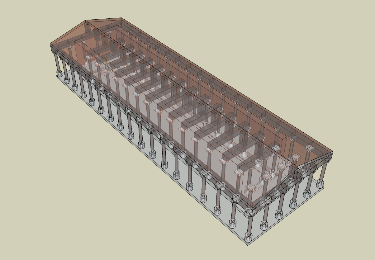 Schematic recreation of second Heraion of Samos according to descriptions and blueprints. Made by me using a 3D software.